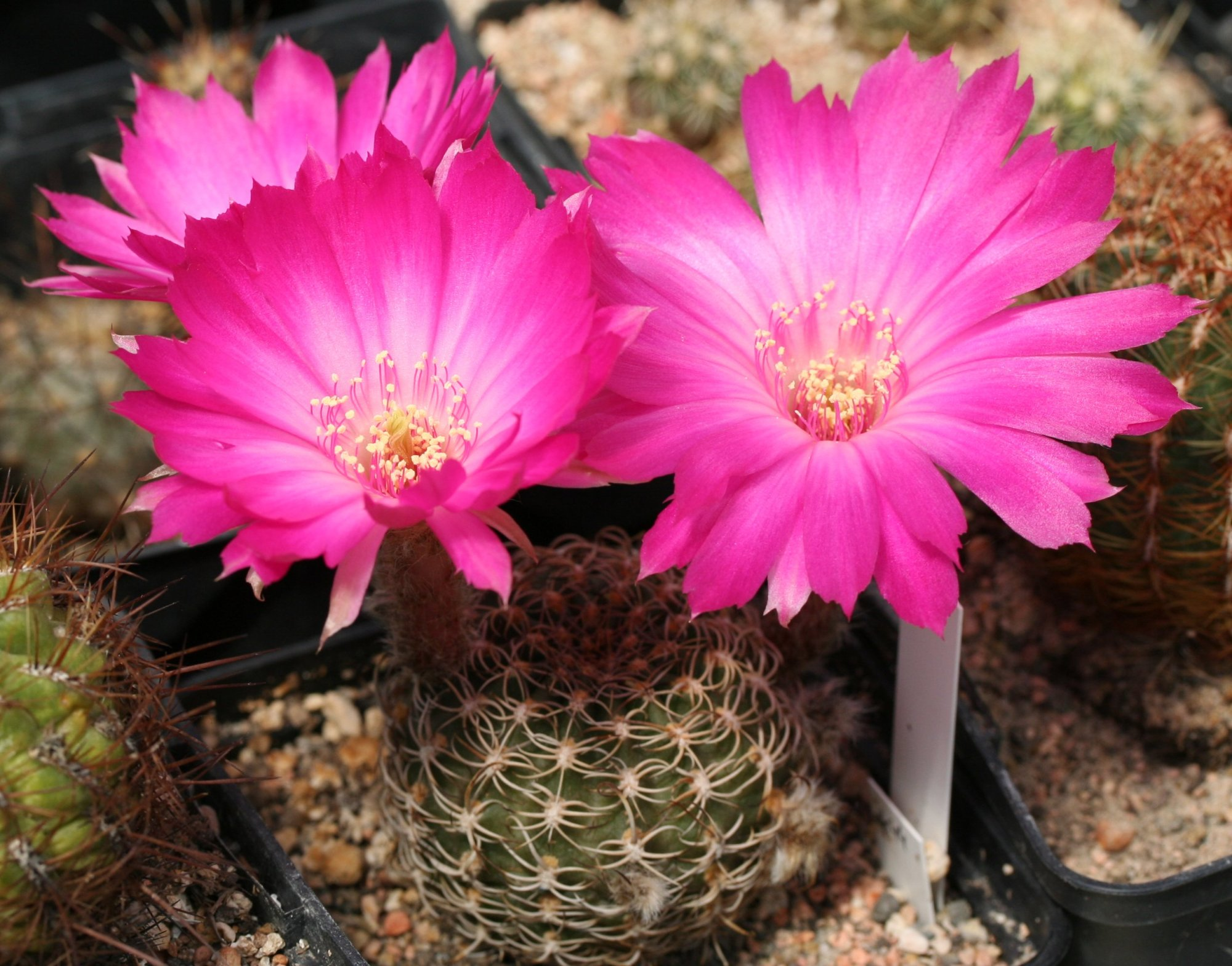 Lobivia winteriana